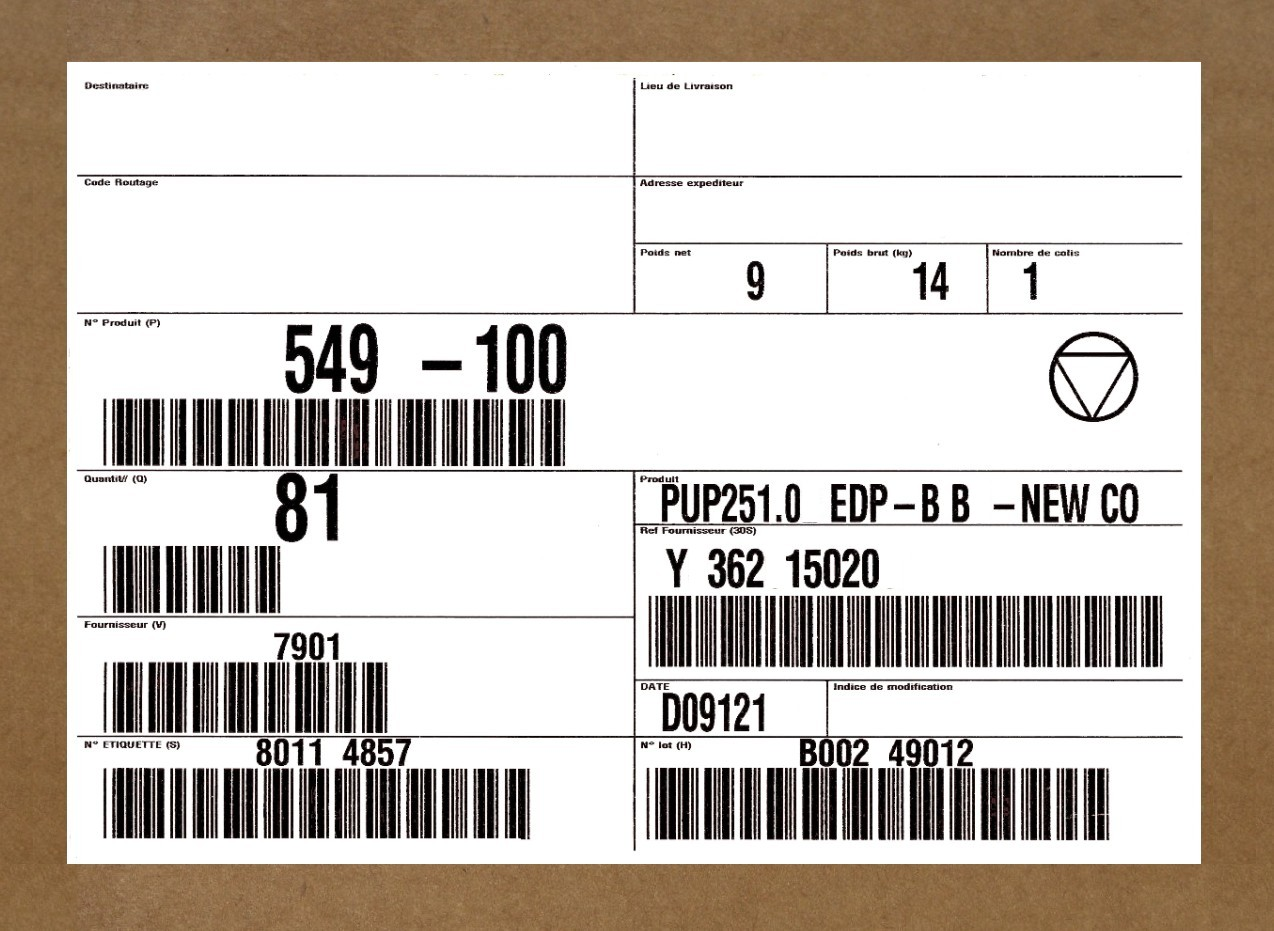 A logistics label on a carton.